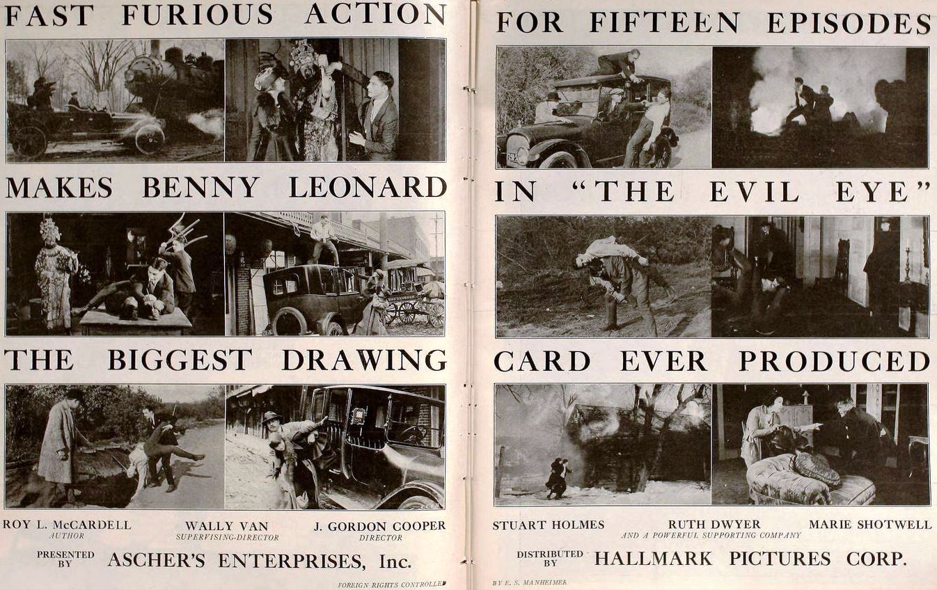 Advertisement for the American film serial The Evil Eye (1920) with Benny Leonard and Stuart Holmes as the mandarin, on pages 3400 and 3401 of the April 17, 1920 Motion Picture News.